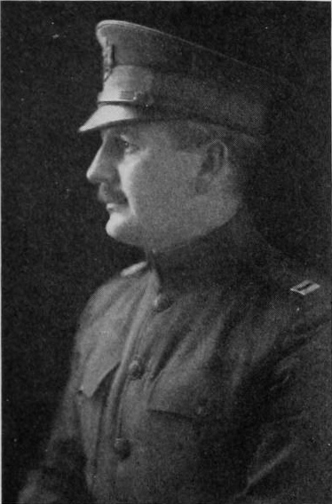 Portrait of William Truman Aldrich, a son of Nelson Wilmarth Aldrich